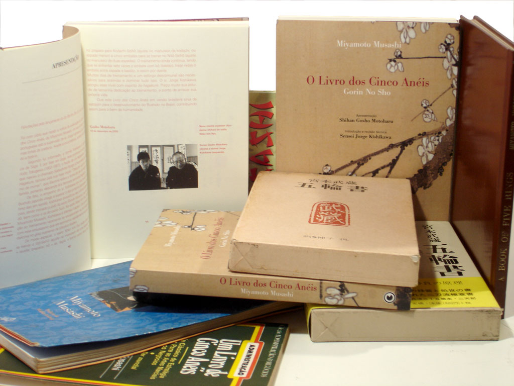 Editions of Miyamoto Musashi's Book of Five Rings